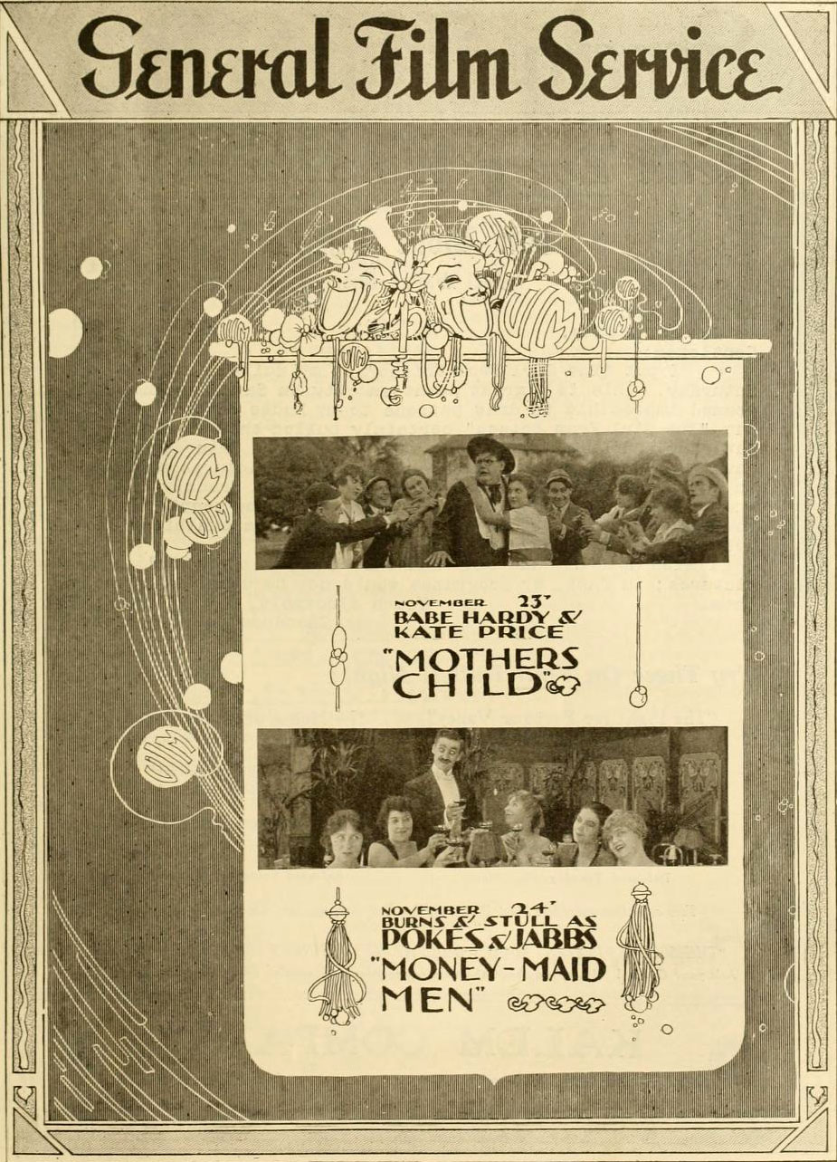 Advertisement in Moving Picture World